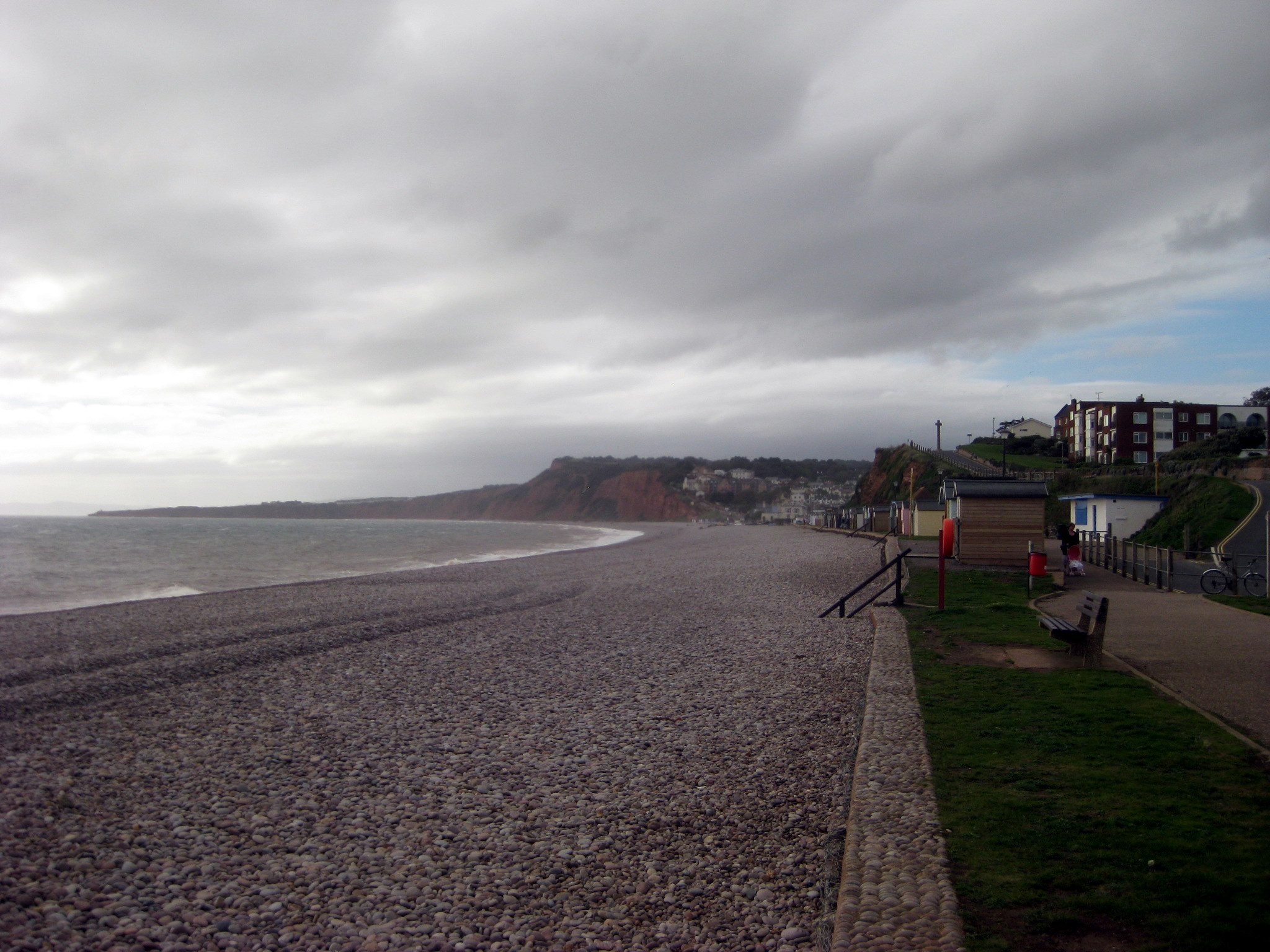 Budleigh Salterton sea front